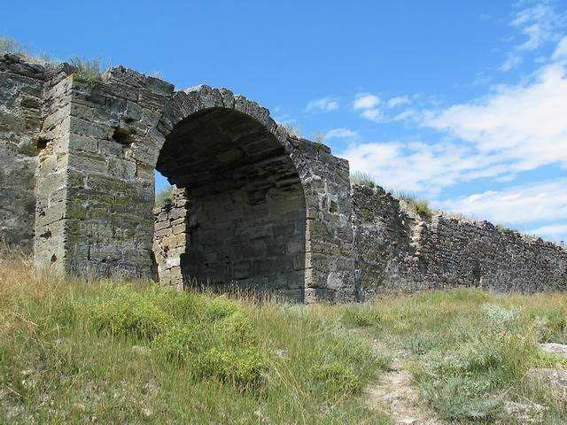 Photo of the Yenikale fortess in Kerch.